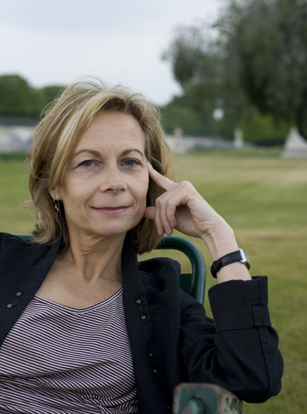 photo of Catherine Perret